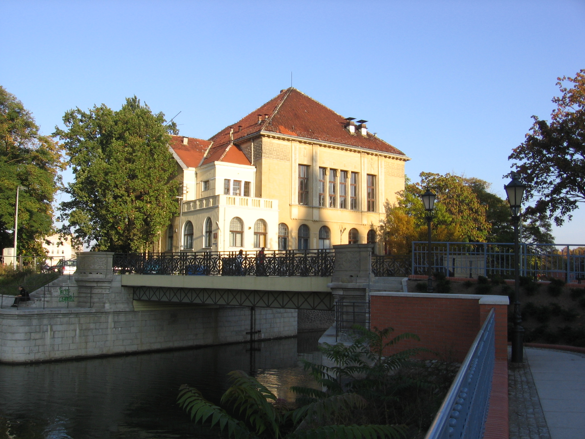 St.Matthew bridge (September 2008) Wrocław, Poland see also almost the same frame, 2005